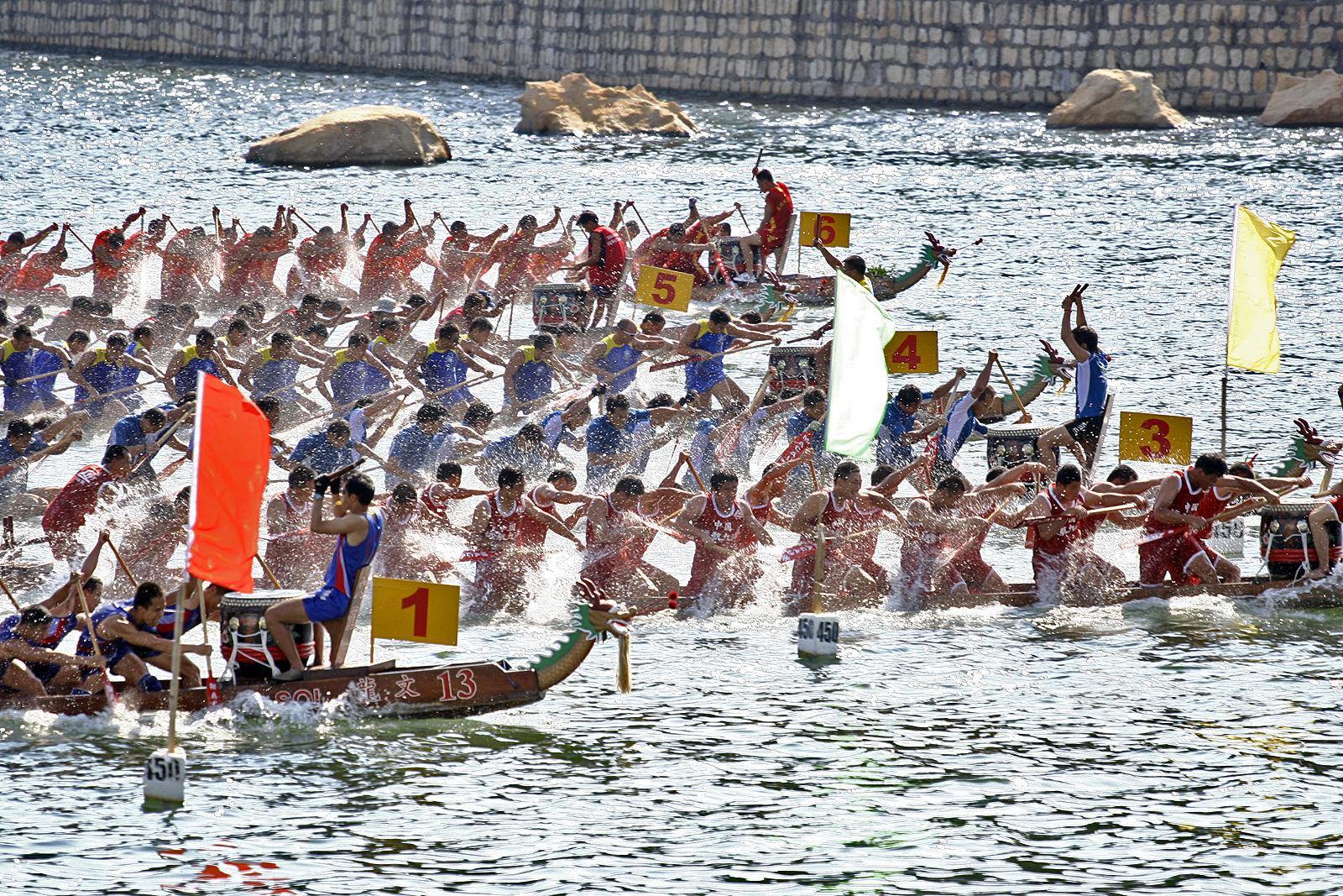 Dragonboat Racing Festival Macau 2005